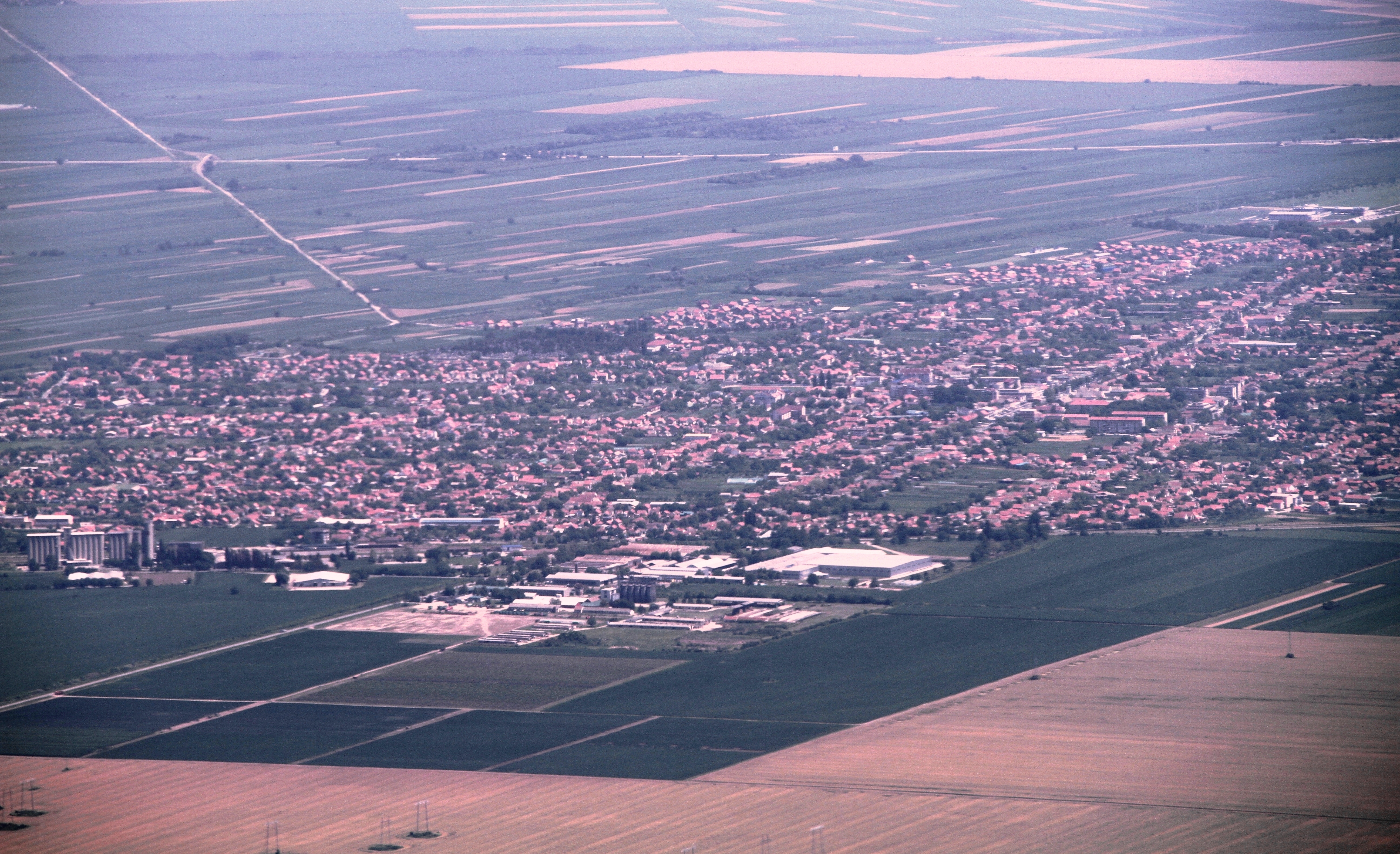 Aerial view from the west toward east, of Stara Pazova municipality, Vojvodina (northern Serbia)